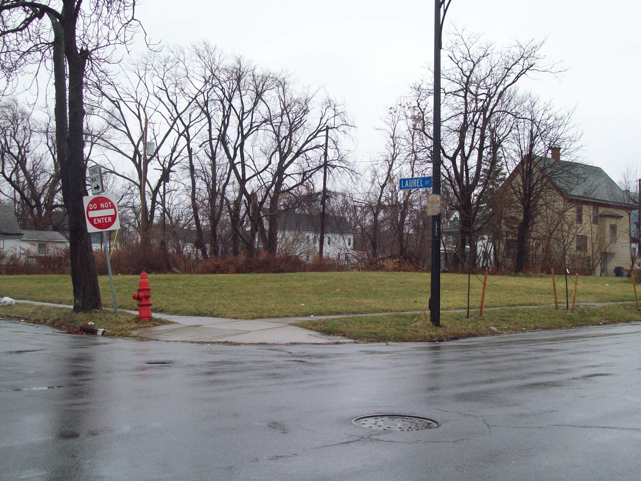 Former site of the Laurel and Michigan Avenues Row, built c. 1880, demolished 1997, as seen in December 2009. Now the site of the Michigan-Riley Urban Farm.